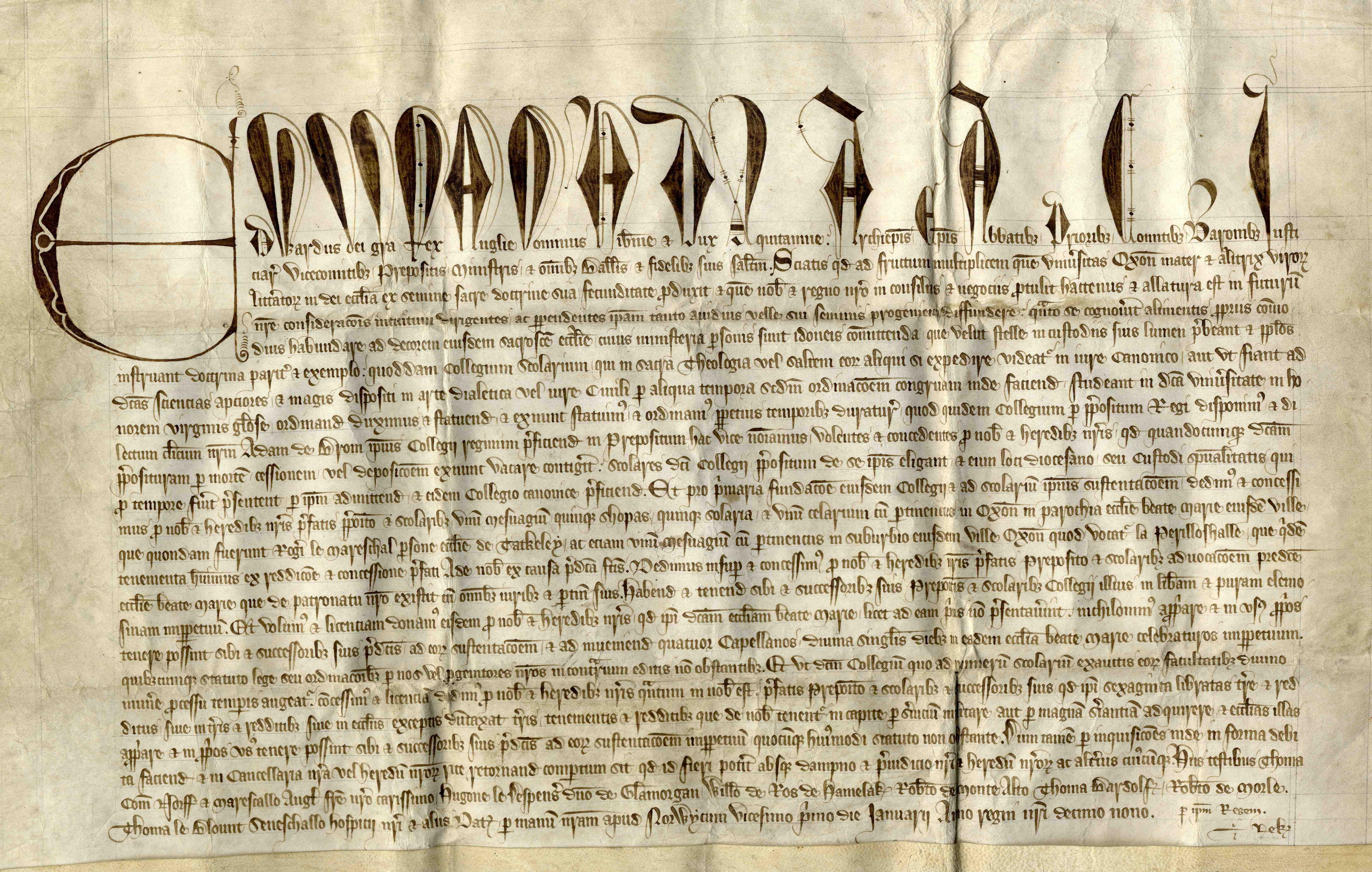 Digital image of the 1326 Oriel College Charter